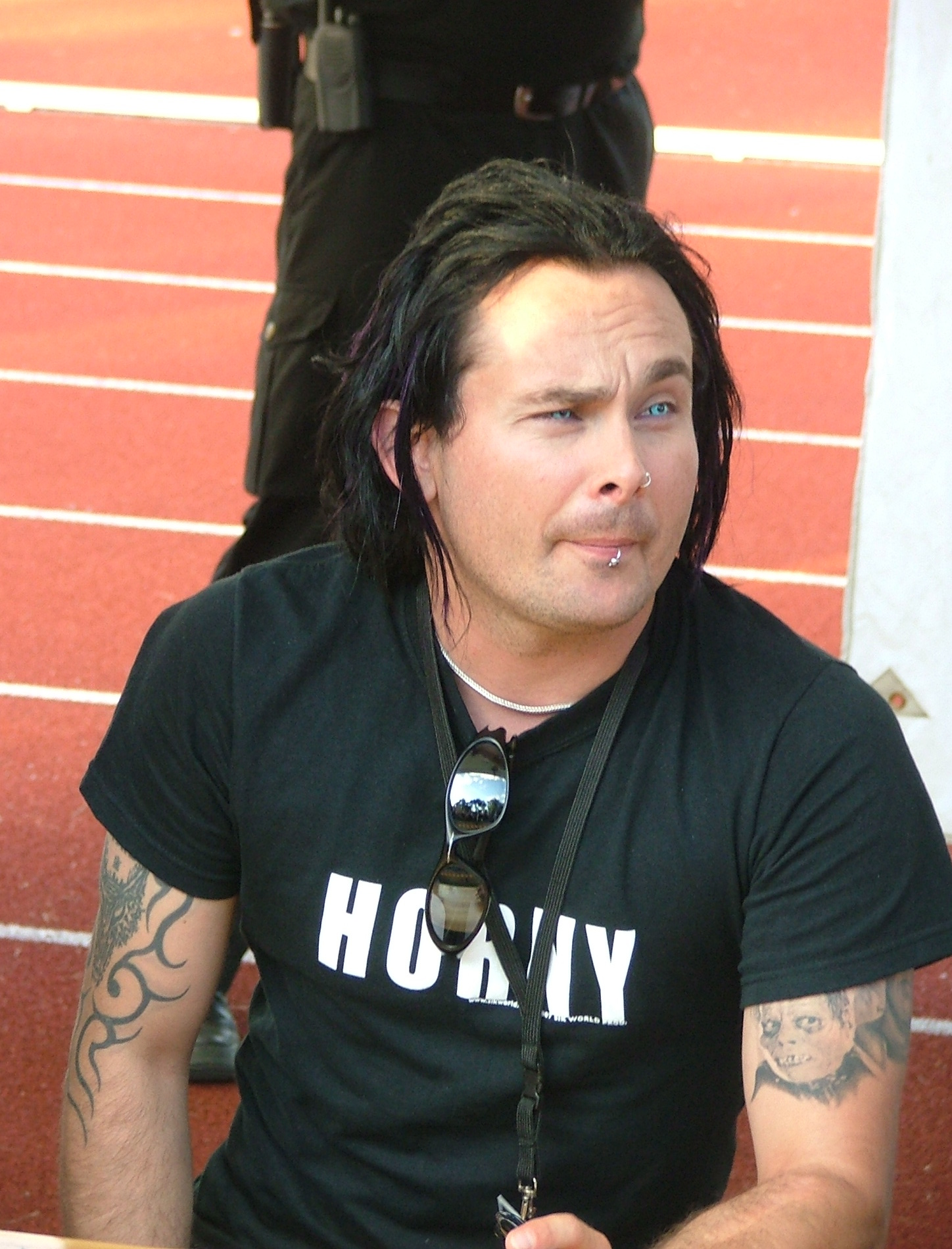 Dani Filth of english metal band Cradle of Filth in Kuopio at Rockcock-musicfestival